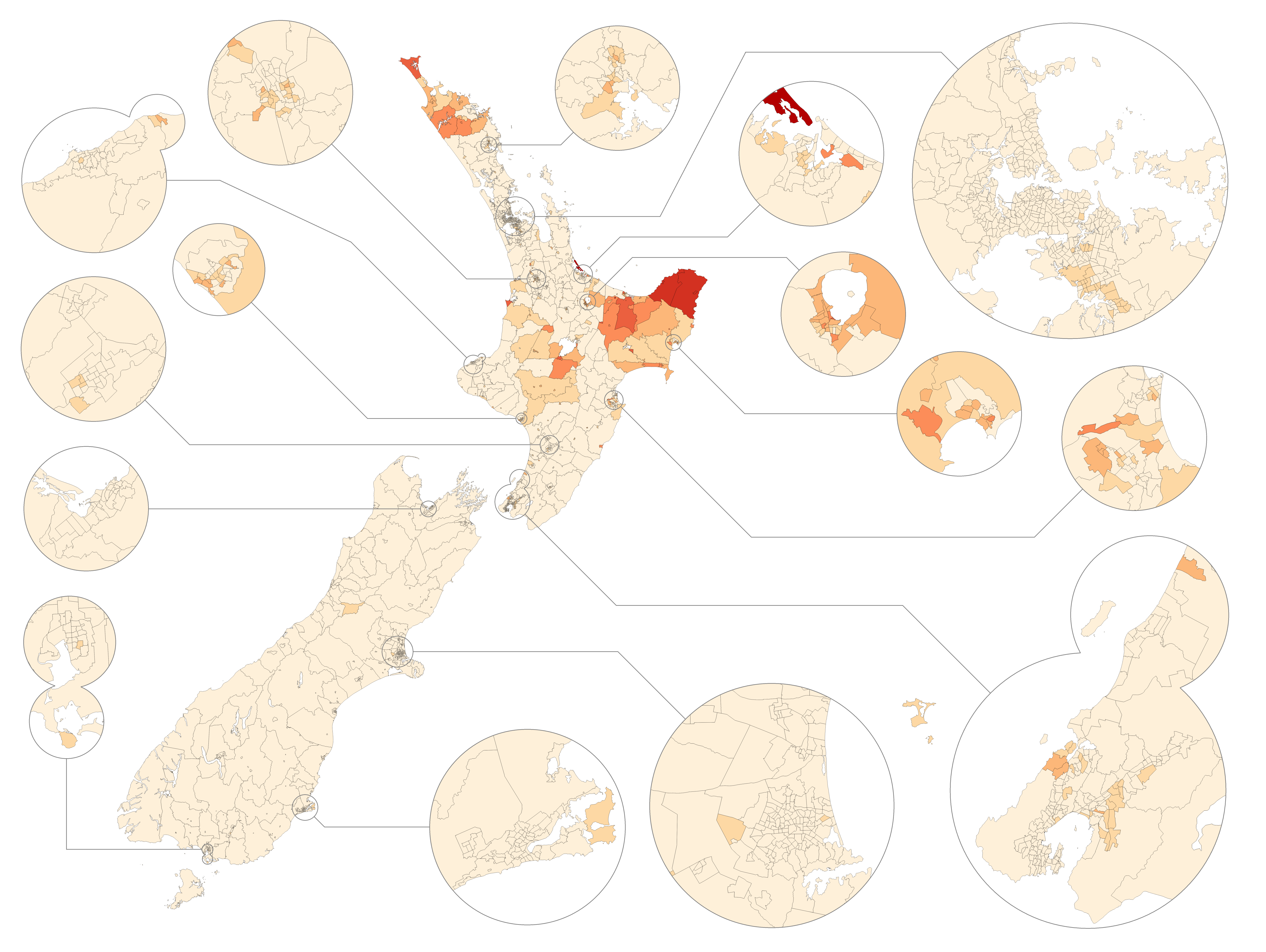 Map of New Zealand showing the percentage of people in each census area unit who speak the Māori language (as of the 2013 census). Less than 5% More than 5% More than 10% More than 20% More than 30% More than 40% More than 50%